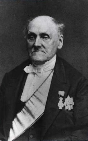 Herman Andreas Mollerup (1798-1886), Danish Supreme Court judge and politician